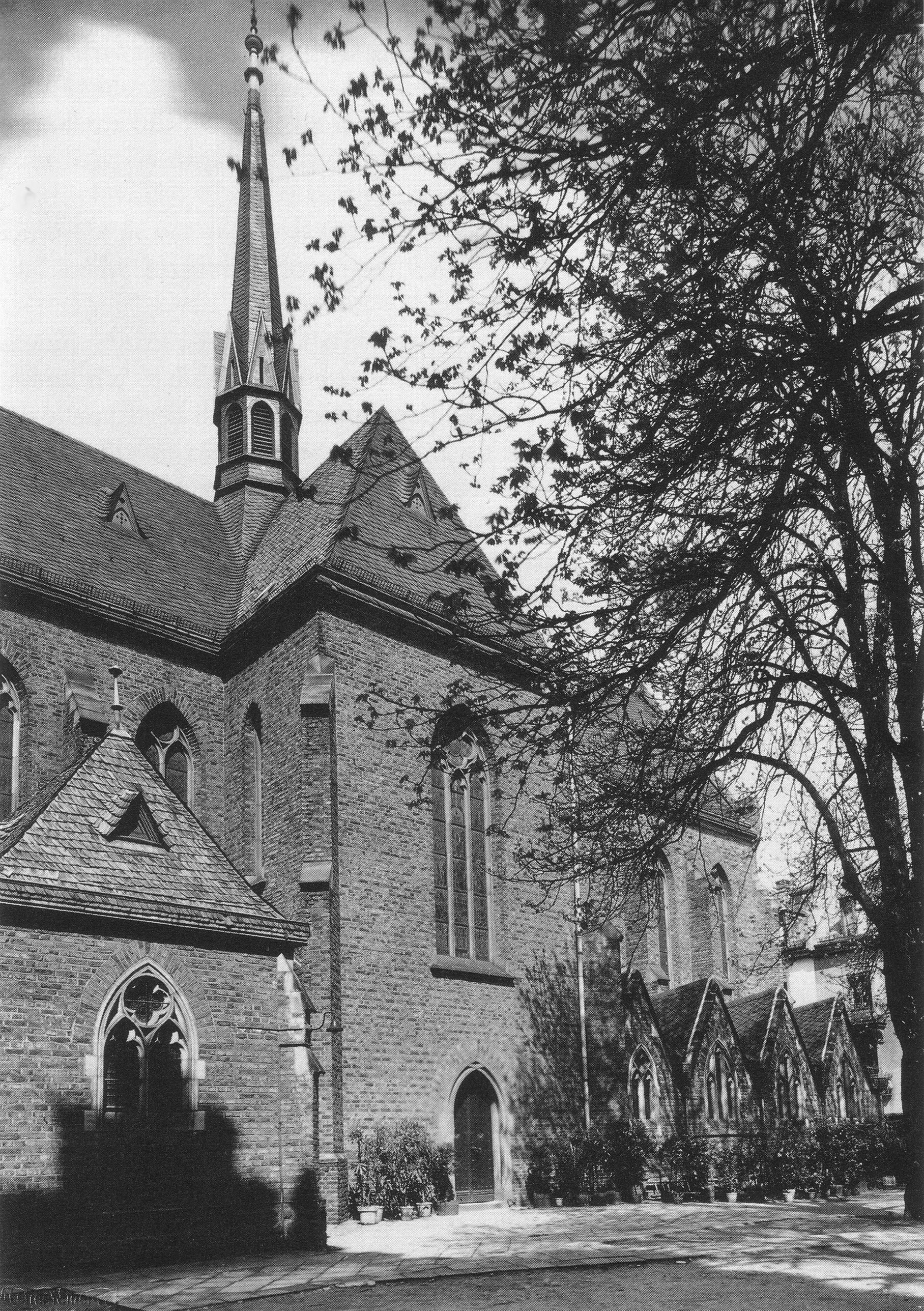 Old St.-Josefs Church in Frankfurt am Main-Bornheim, 1876